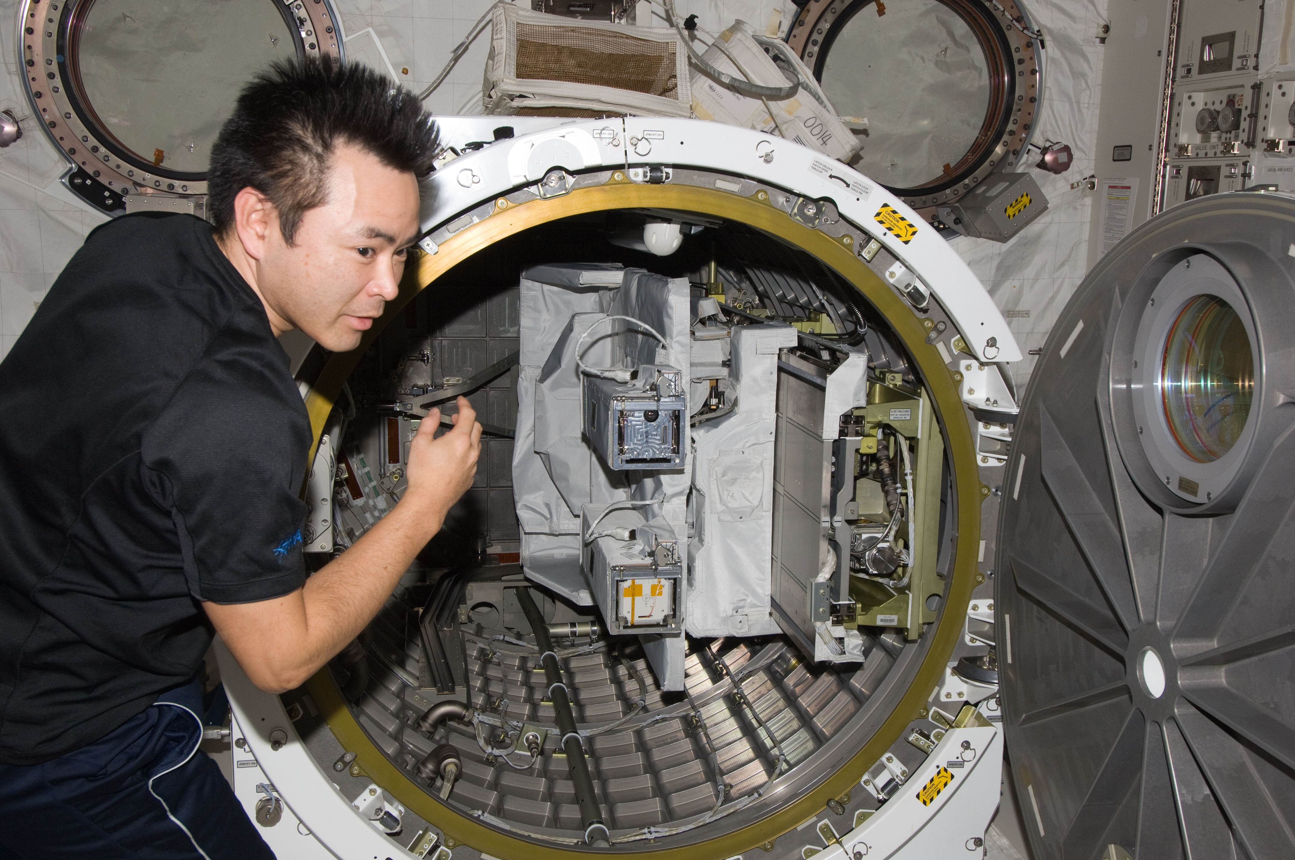 Astronaut Hoshide With Small Satellite Orbital Deployer ISS033-E-007429 (26 Sept. 2012) --- Japan Aerospace Exploration Agency astronaut Aki Hoshide, Expedition 33 flight engineer, works near the airlock in the Kibo laboratory of the International Space Station. The Small Satellite Orbital Deployer (SSOD) previously installed on the Multi-Purpose Experiment Platform (MPEP) is visible in the airlock.